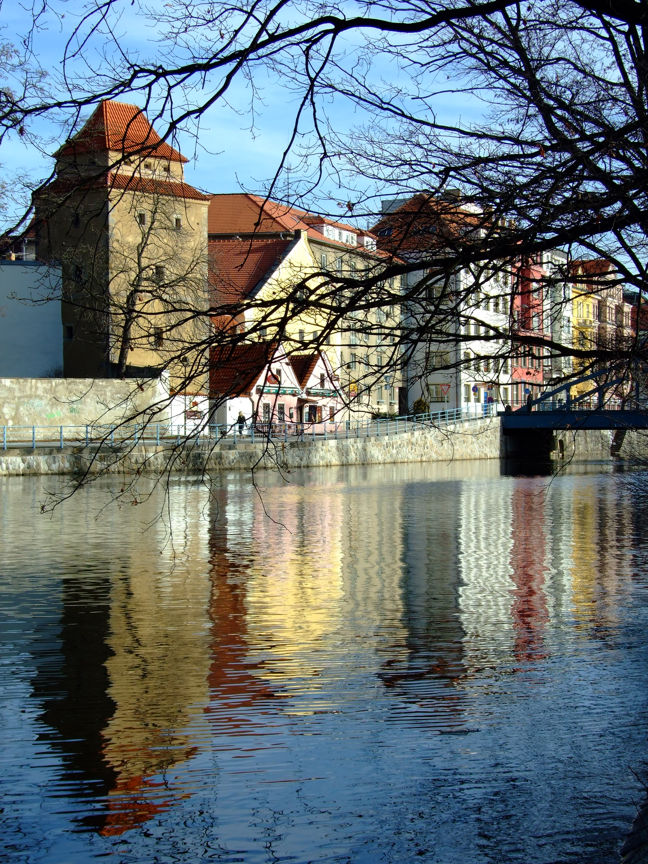 Zátkovo embankment with Železná panna (Iron Maid) wall tower (formerly called Spilhaybl) in the city center of České Budějovice, Czech Republic